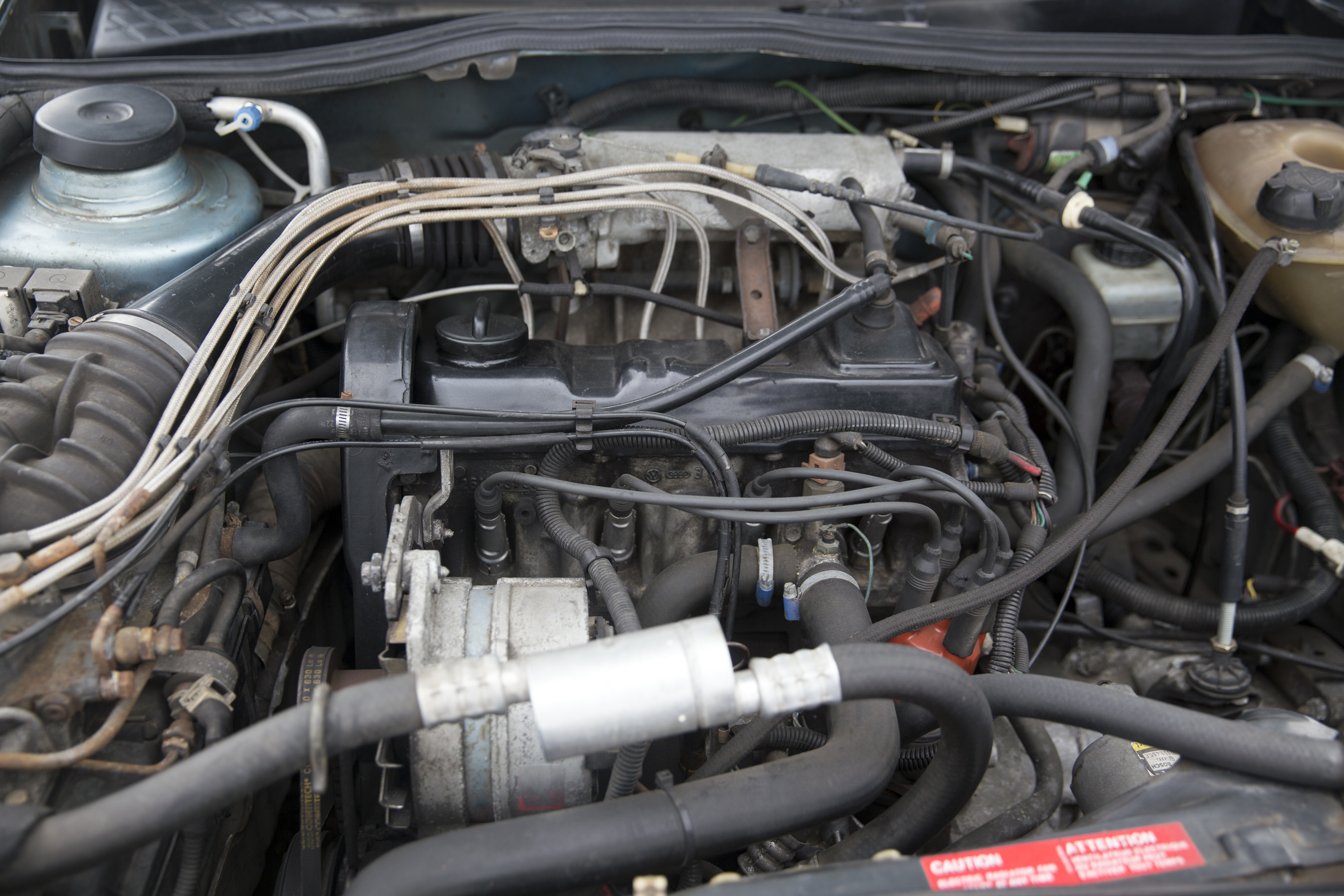 The 1.8-liter, 85hp (engine code GX) inline-four in a 1985 Volkswagen Golf in the show area at Hershey 2019.